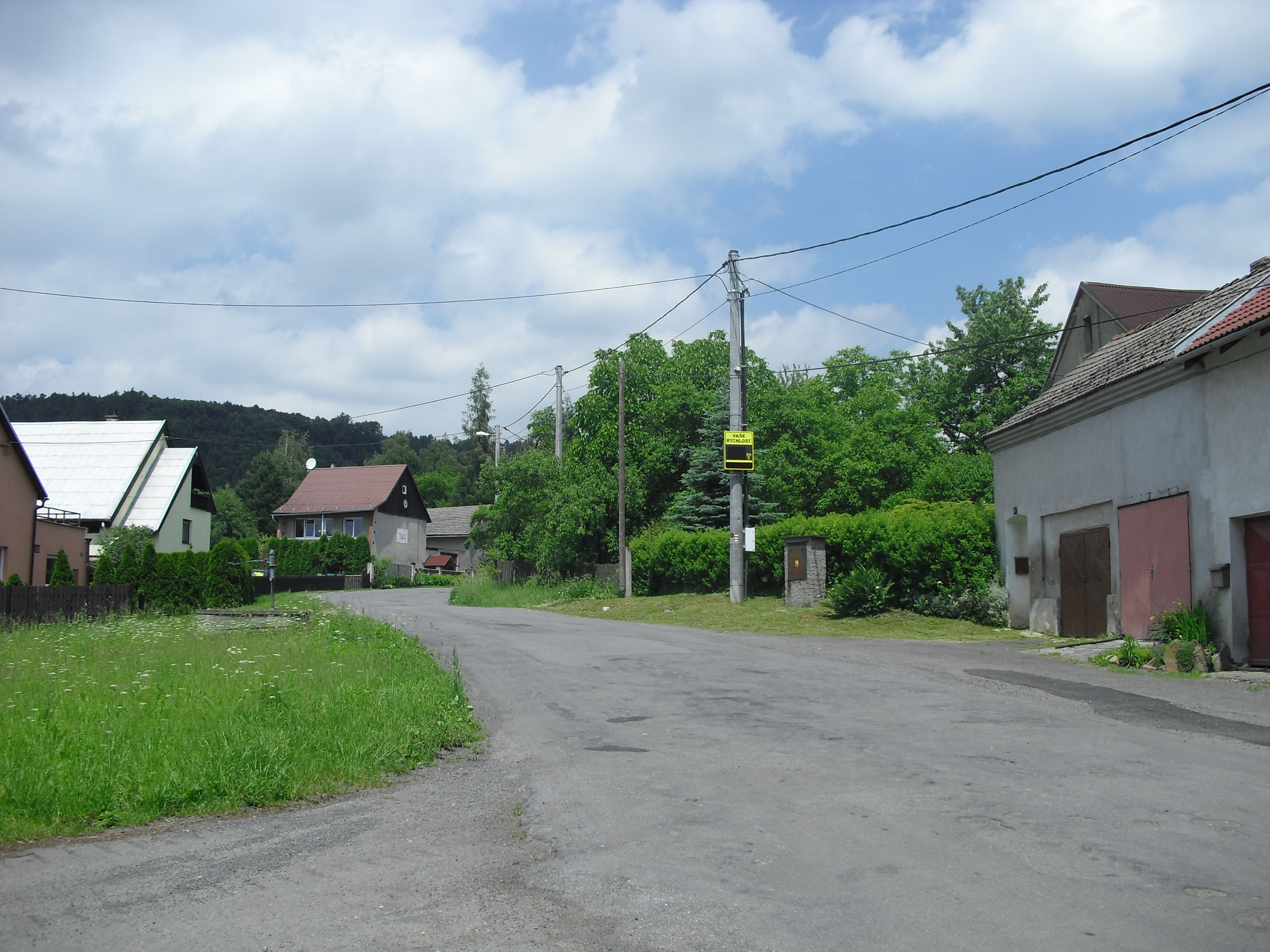 Odry, Nový Jičín District, Czech Republic, part Vítovka.